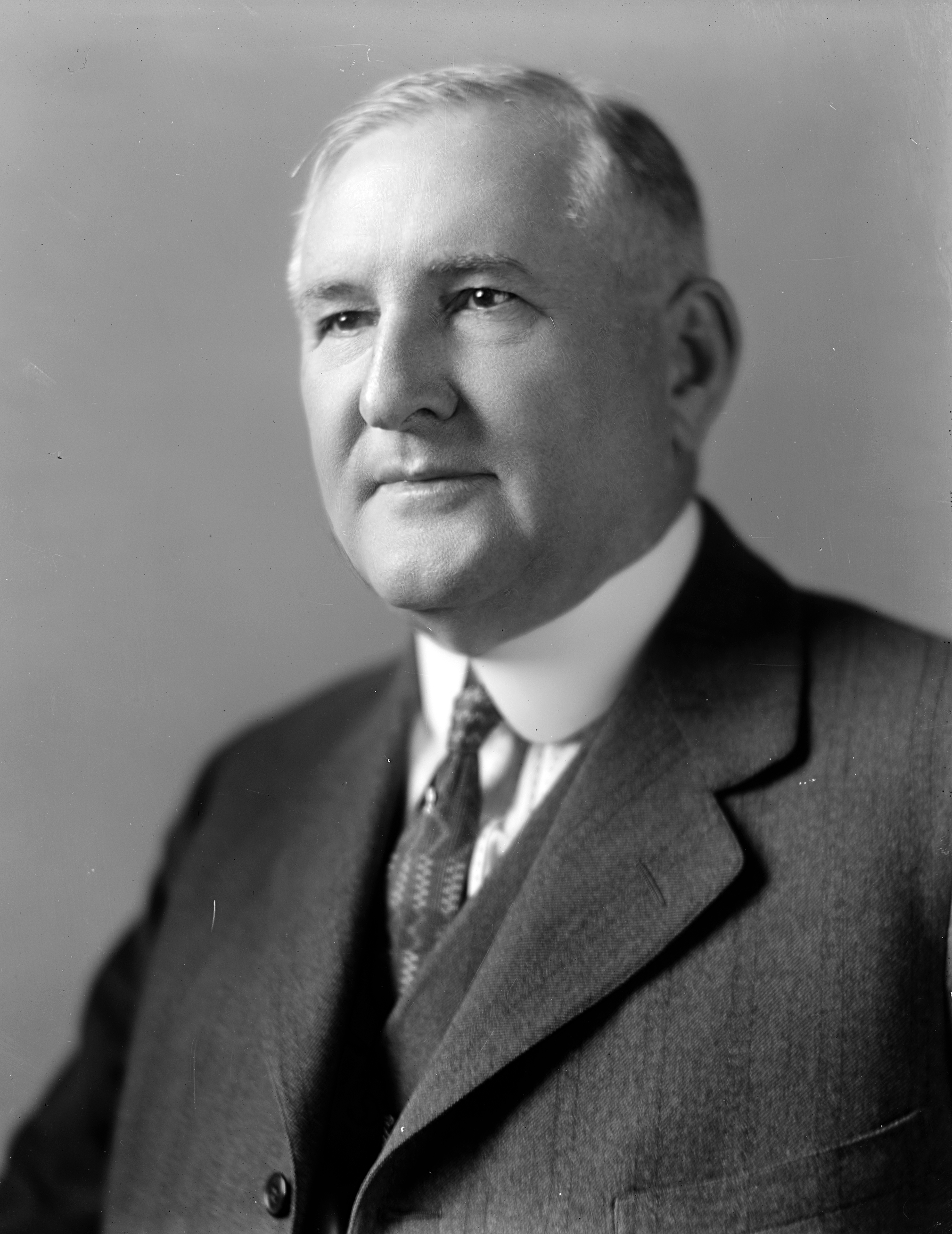 Frederick William Magrady, US Representative from Pennsylvania